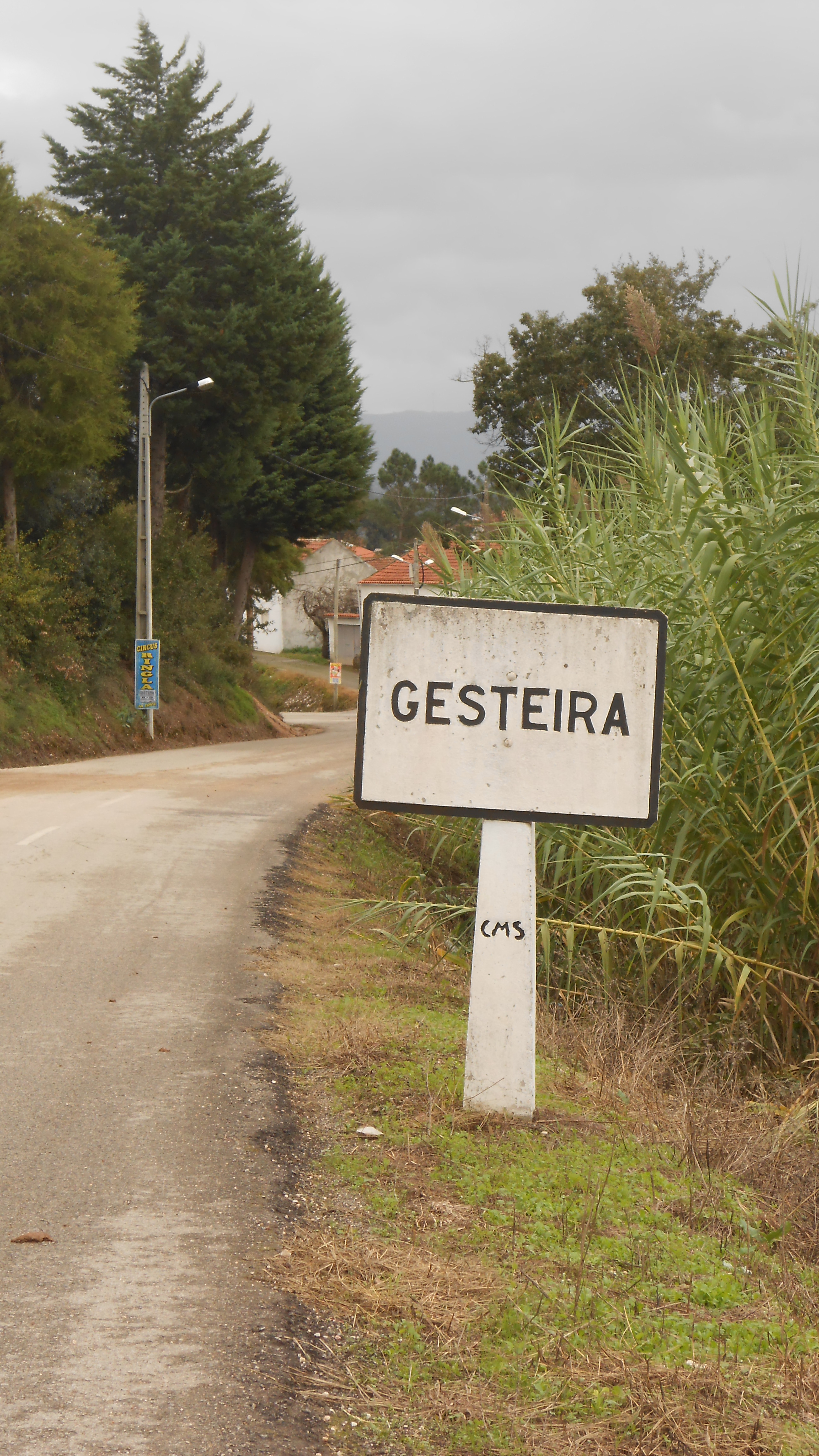 Entry sign to the village of Gesteira, in the Gesteira parish, municipality of Soure, district of Coimbra, Portugal.